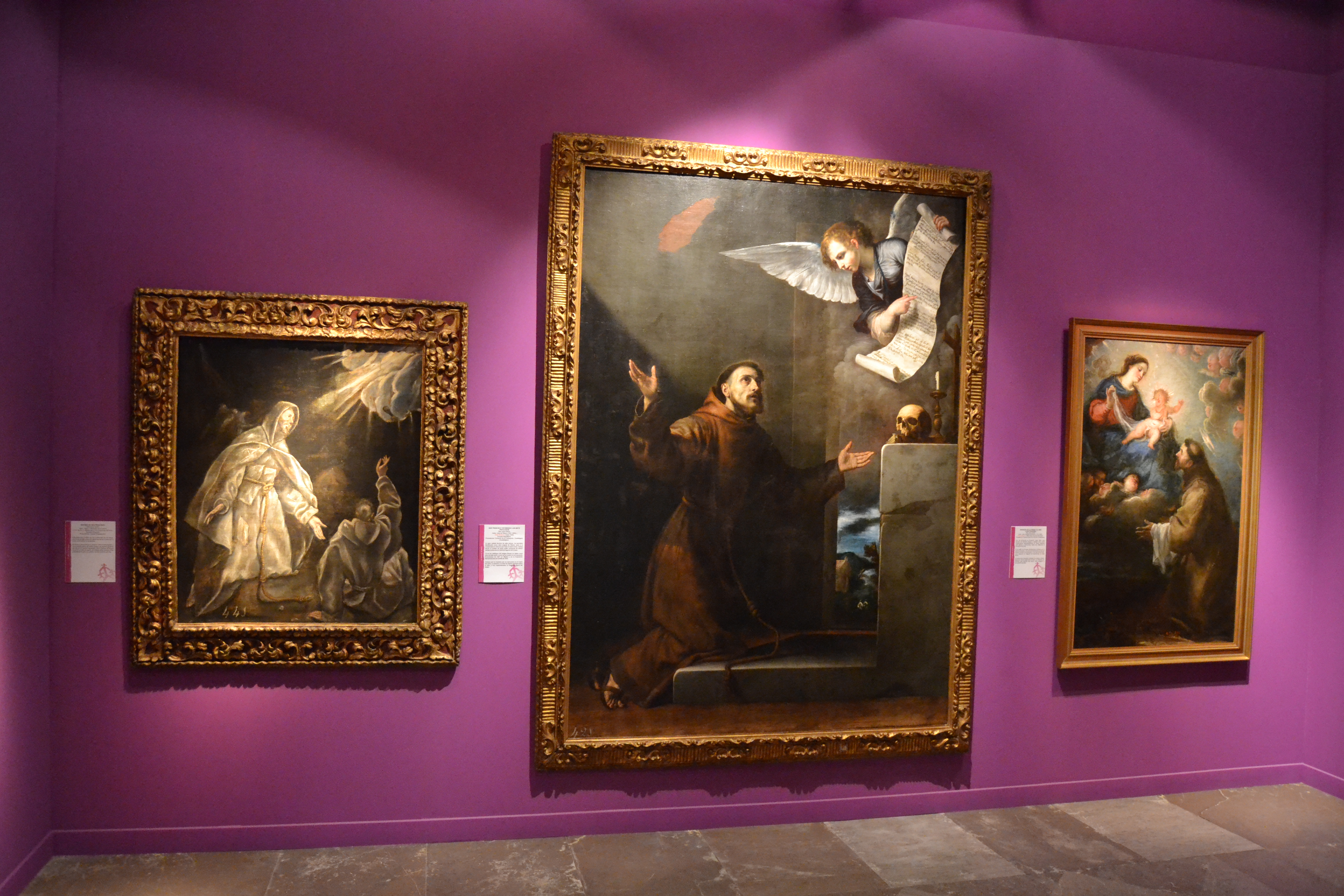 Museum of Guadalajara, Spain